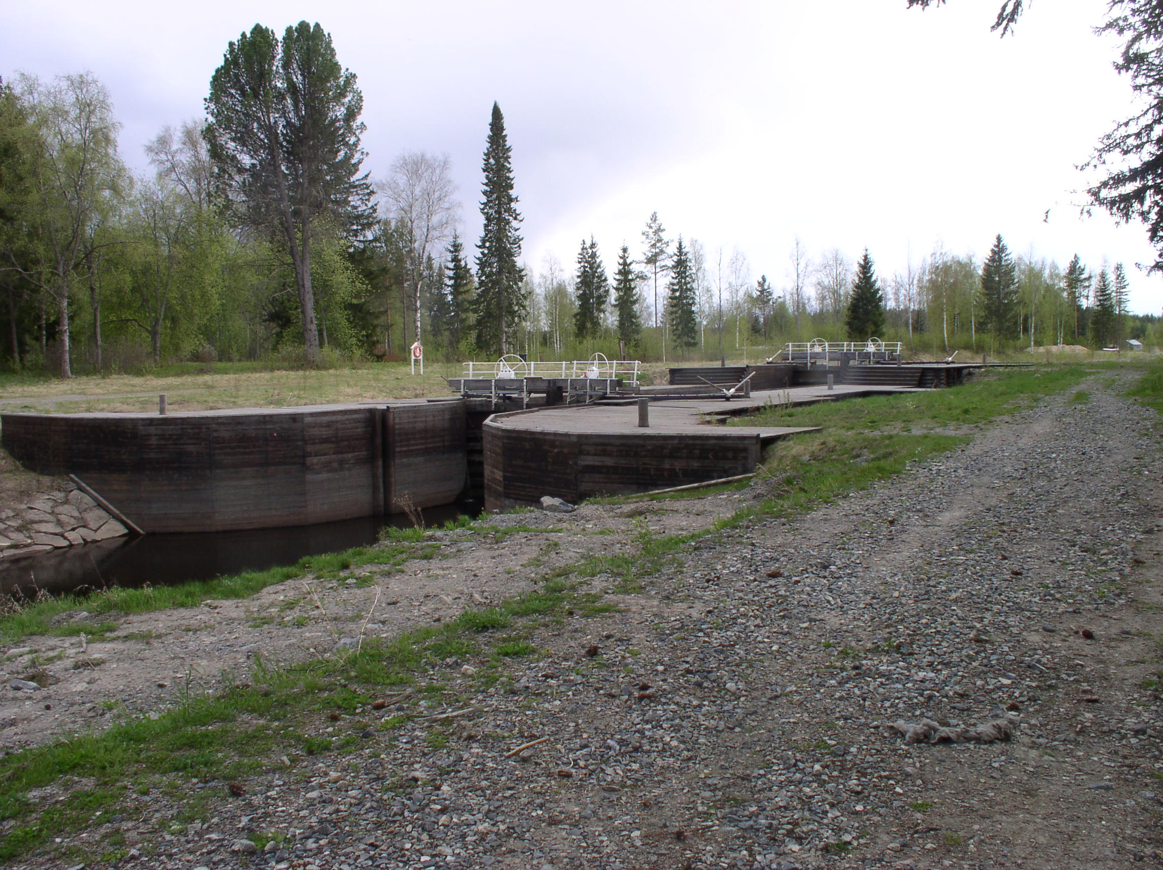 The Saarikoski Canal in Iisalmi, Finland. In use 1906–31, and after restoration since 2003.